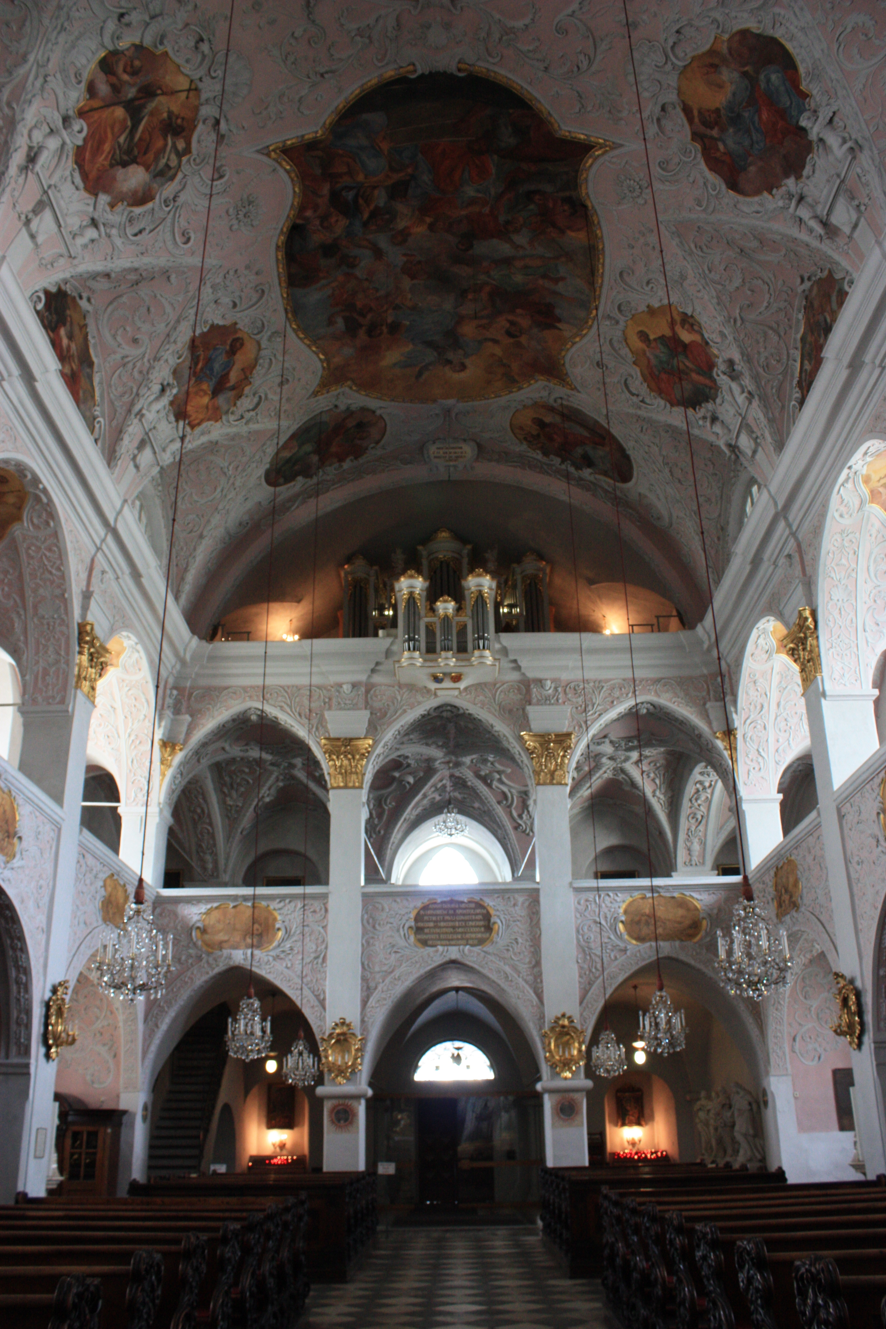 View to the Organ loft of the Cathedral of Klagenfurt Locality:Domplatz Community:Klagenfurt